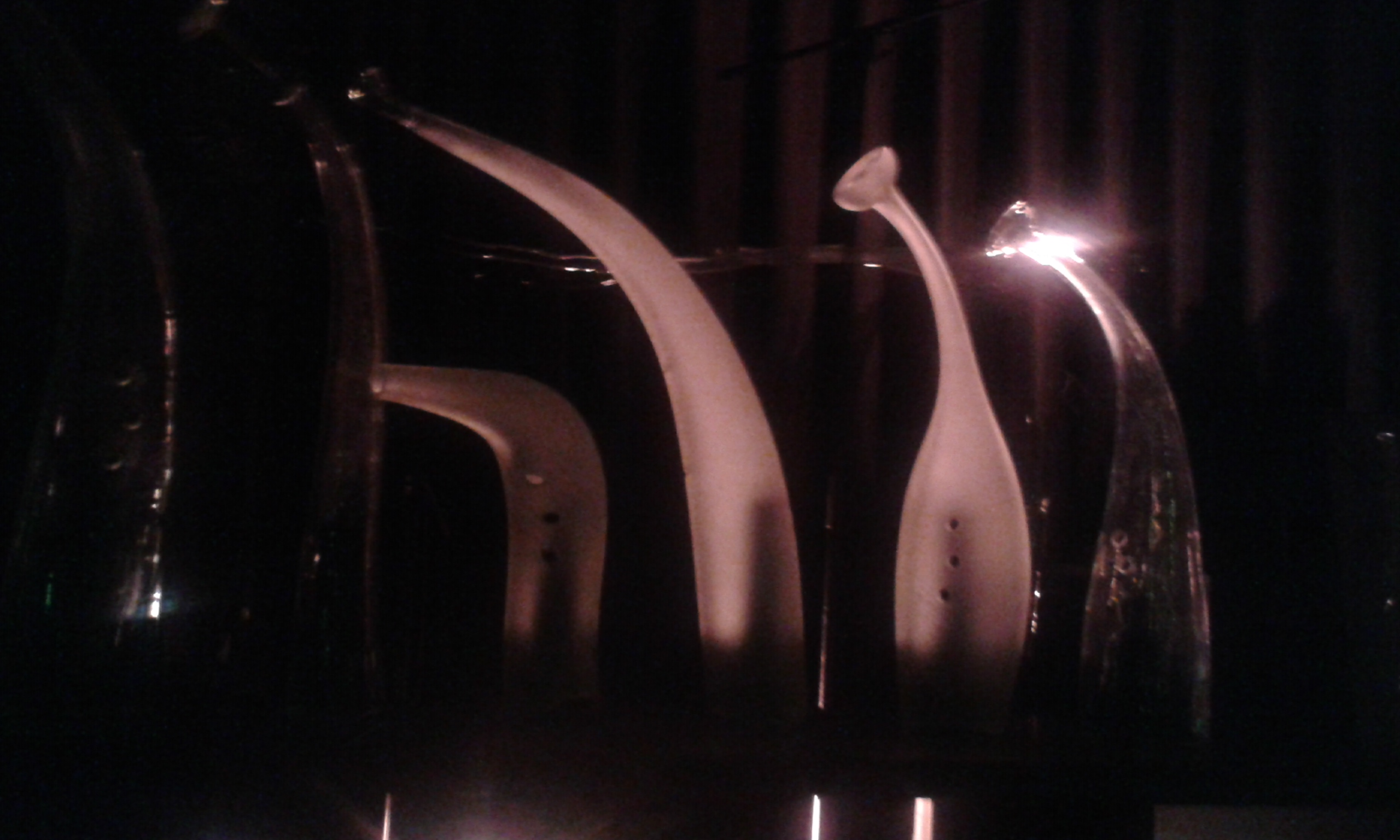 Arve Henriksen with glass instruments at Victoria, December 2015.